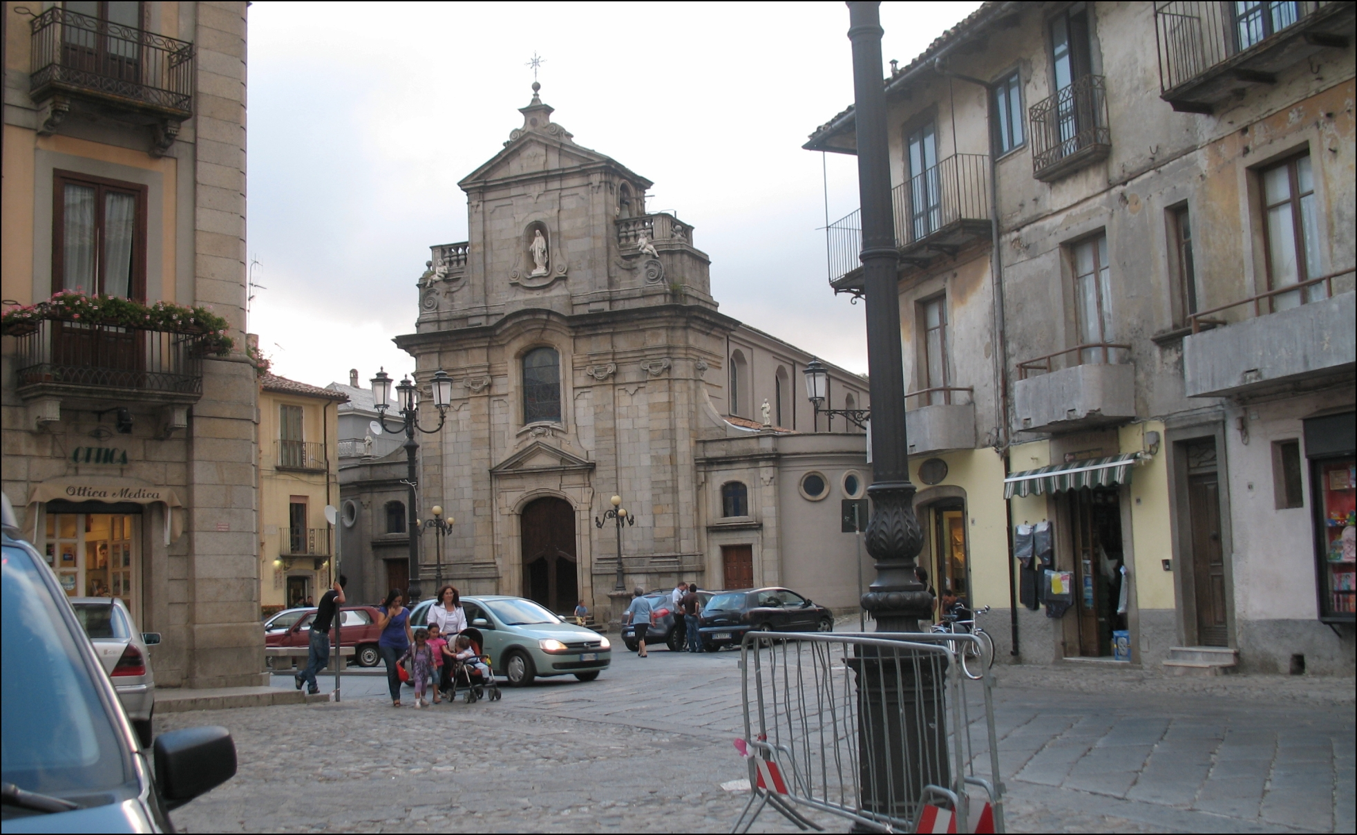 Saint Biagio Church